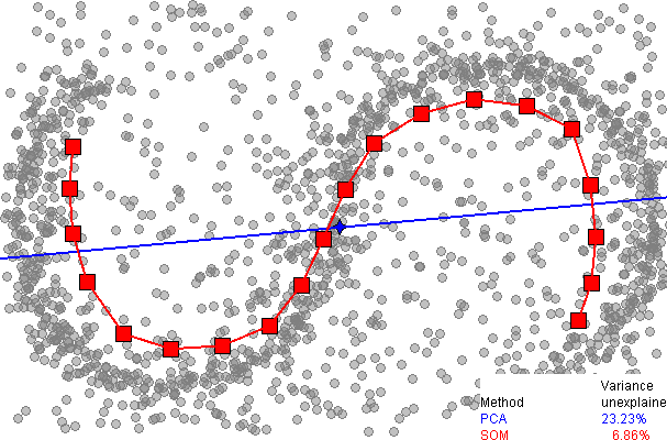 One-dimensional SOM versus PCA for data approximation. SOM is a red broken line with squares, 20 nodes. The first principal component is presented by a blue line Data points are the small grey circles. For PCA, the Fraction of variance unexplained in this example is 23.23%, for SOM it is 6.86%. Prepared with the Java applet, E.M. Mirkes, Principal Component Analysis and Self-Organizing Maps: applet. University of Leicester, 2011 This applet is published under cc Attribution 3.0 unported license.